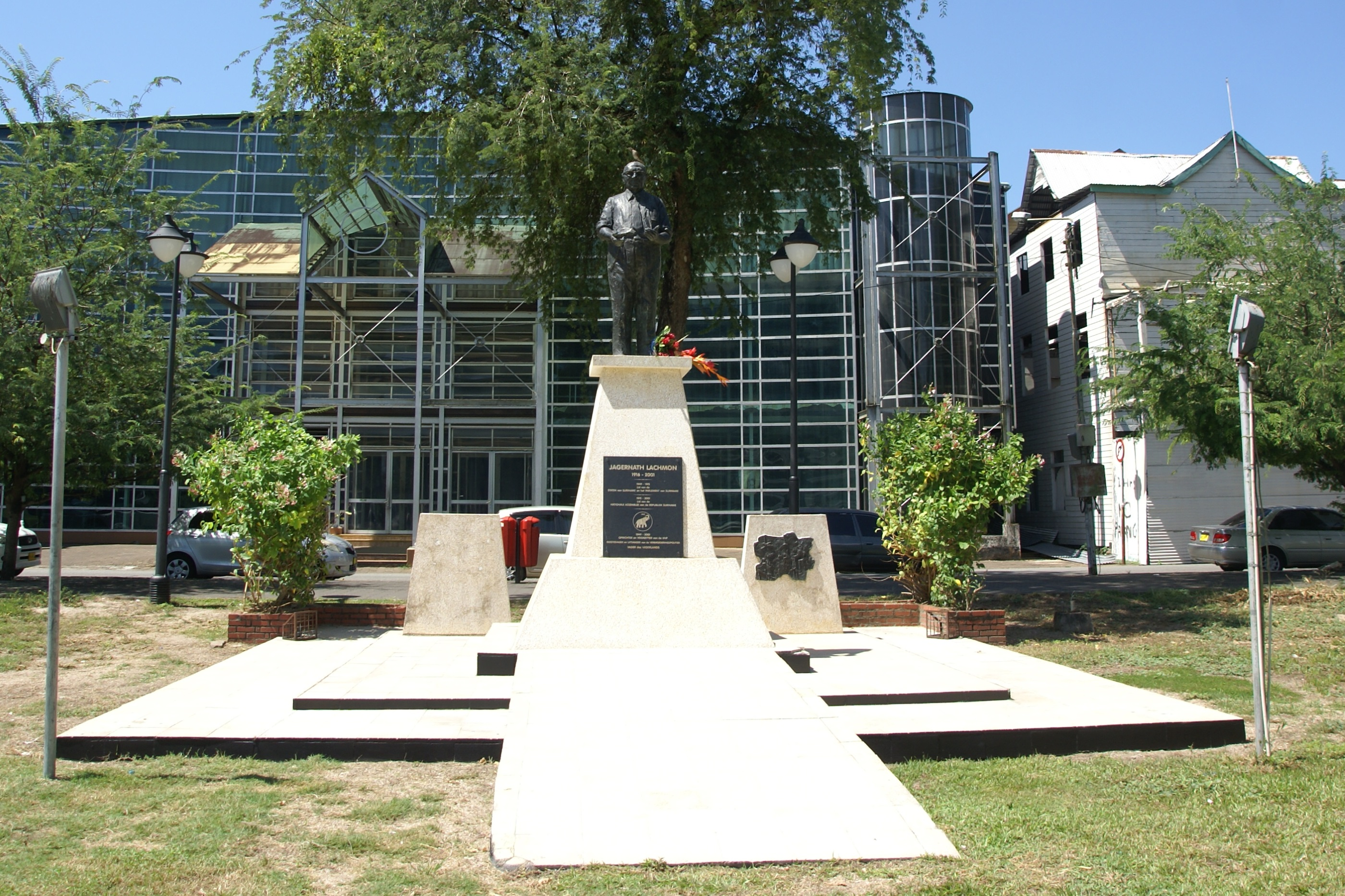 Statue of Jagernath Lachmon, Onafhankelijkheidsplein, Paramaribo, Surinam.